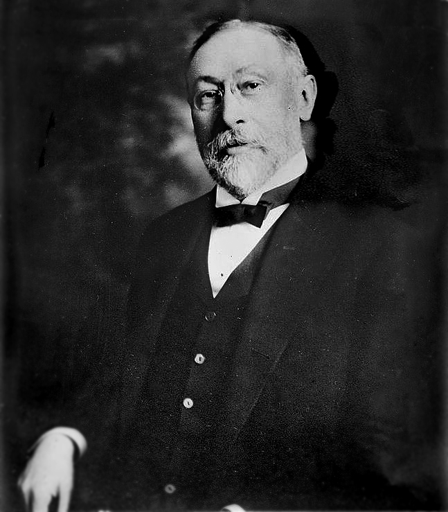 Photograph of George C. Boldt (1851-1916).